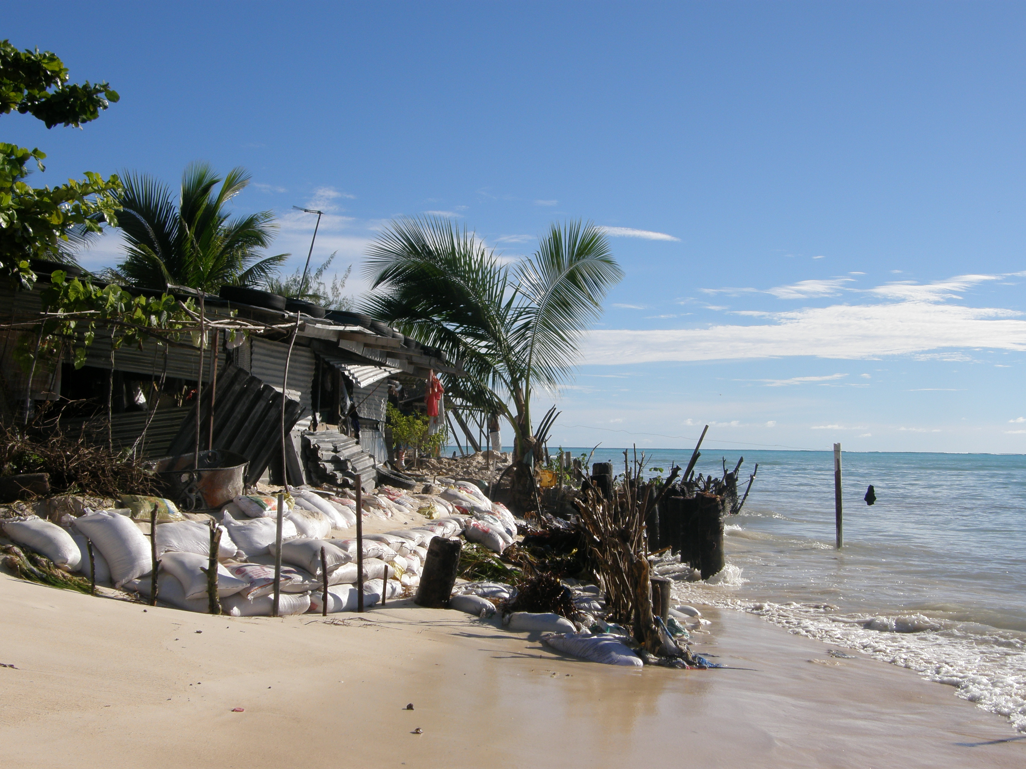 Household experiencing coastal erosion on South Tarawa